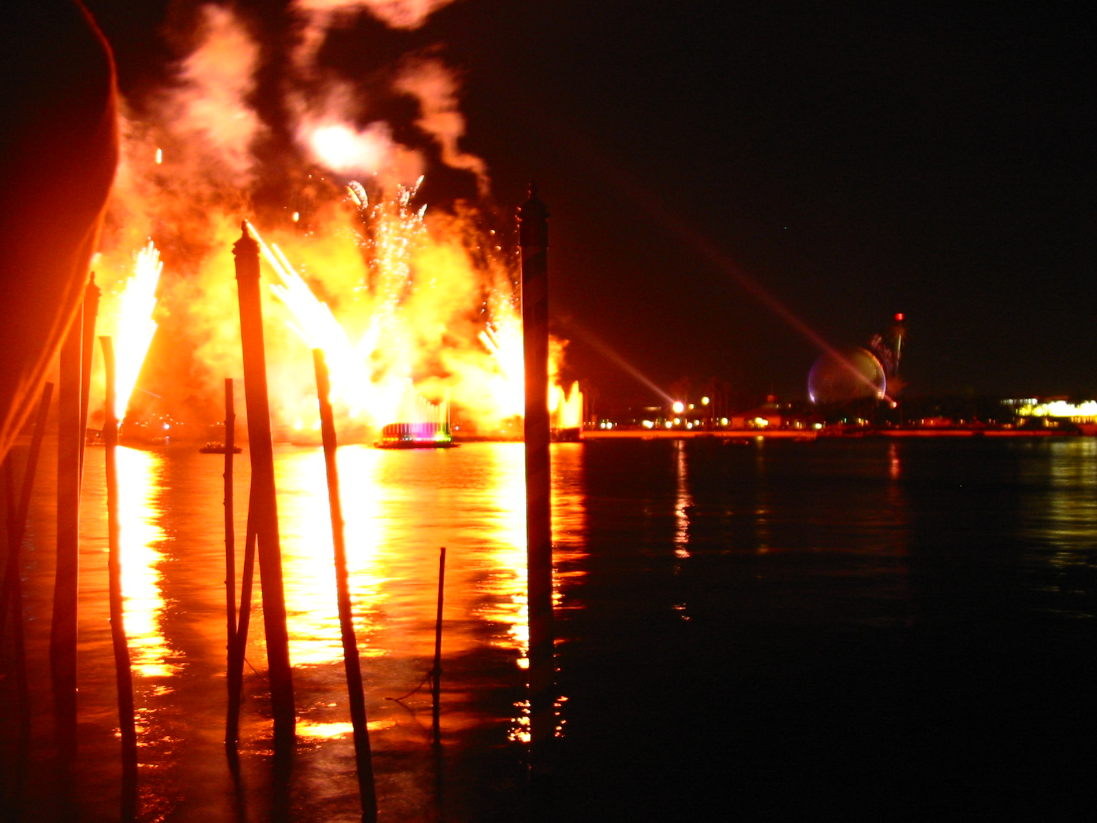 Epcot in Walt Disney World